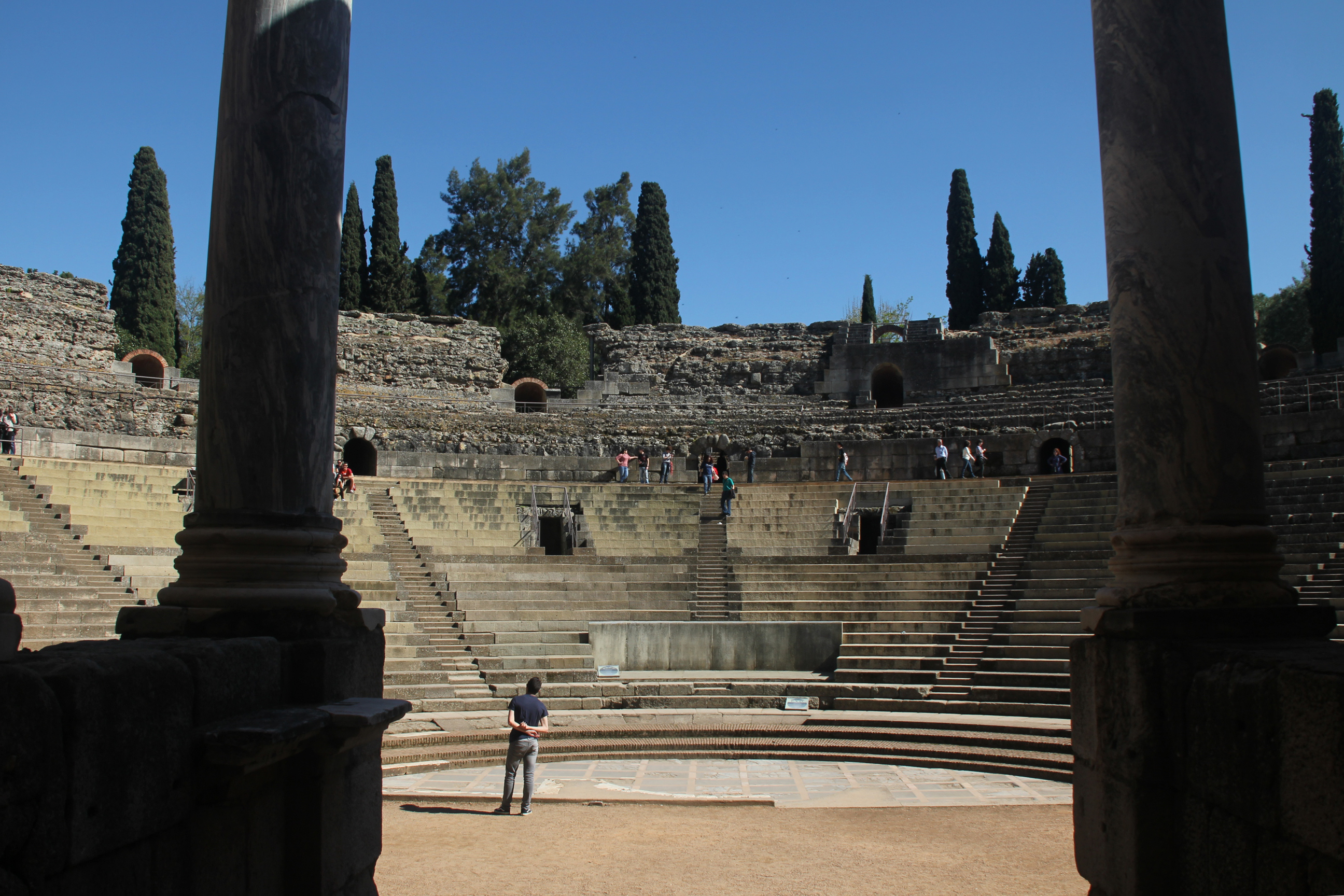 Roman Theatre in Mérida